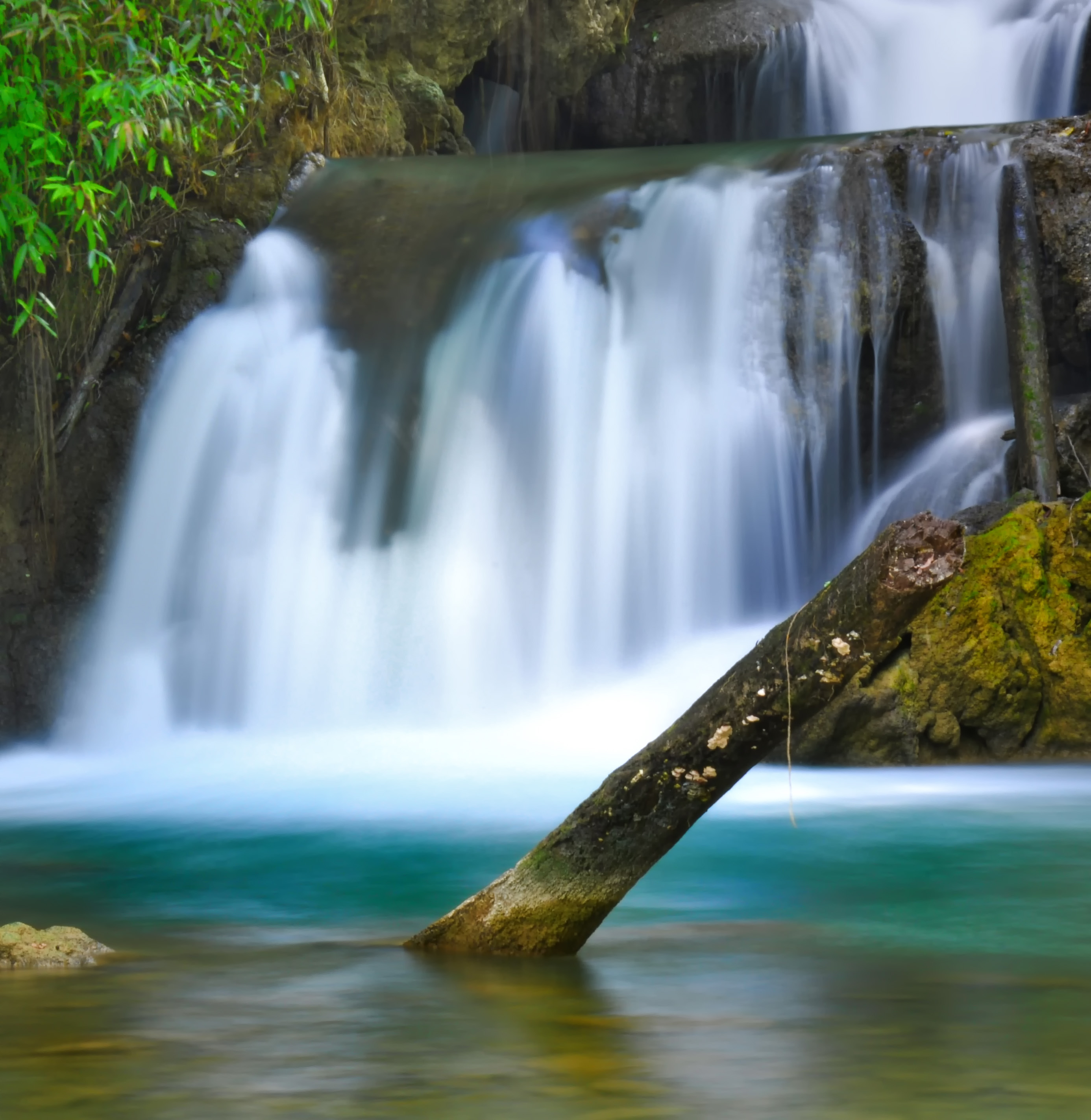 The lower section of Y.S. Falls. A popular recreational area in Southeastern Jamaica.